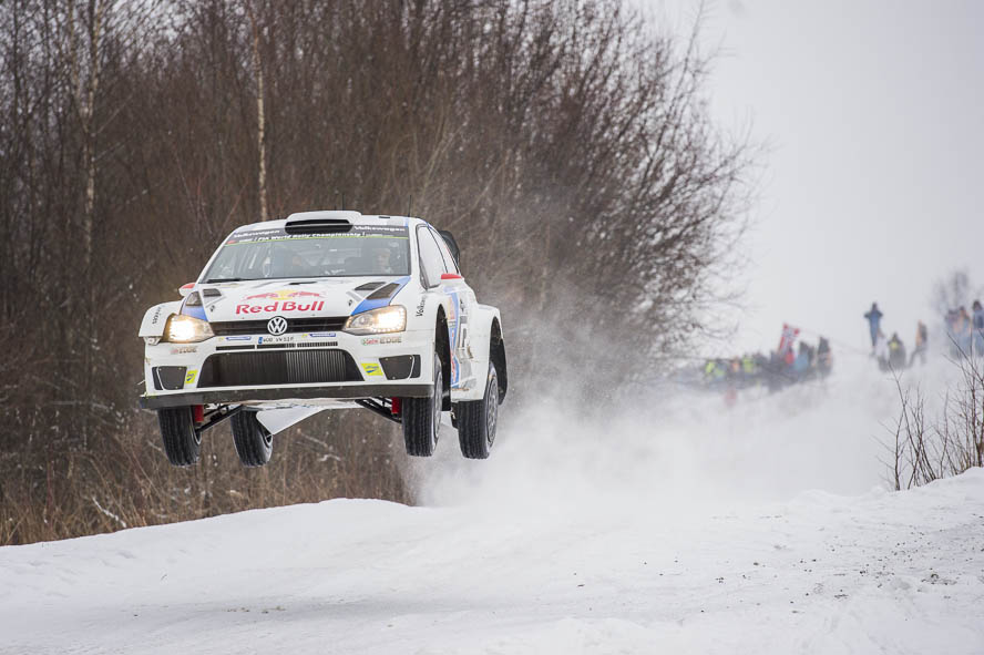 Rally Sweden 2014 Jari-Matti Latvala,Kirkener 1,Mikka Anttila,Motorsport,Rally,Rally Sweden,Rallye,Rallye Schweden,SS3,VW Polo R WRC,Volkswagen Motorsport,Volkswagen Polo R WRC,WP3